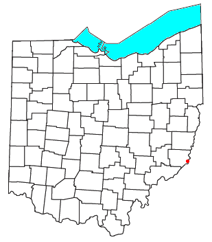 Locator map of the unincorporated community of Hannibal in Monroe County, Ohio, United States.